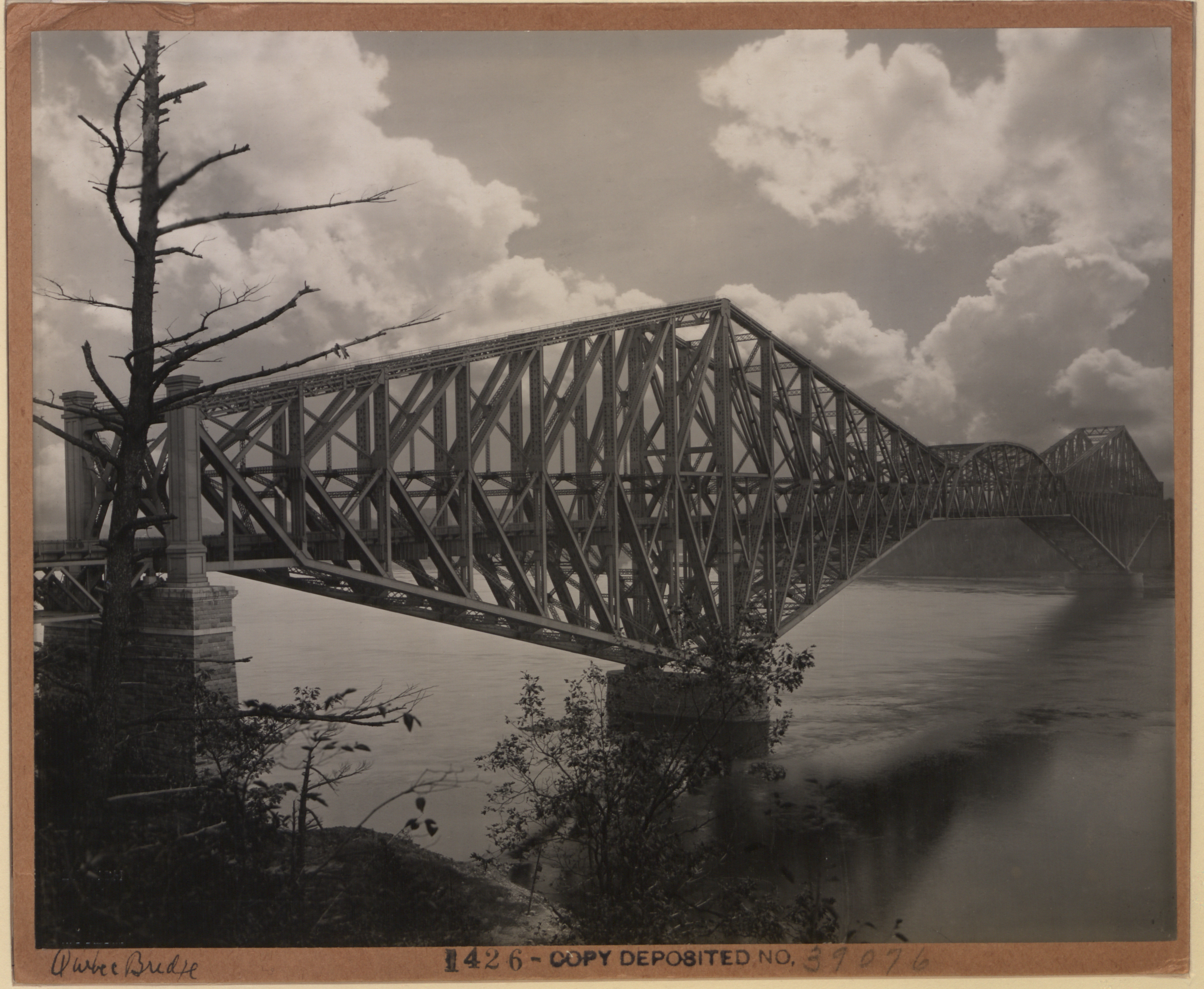 Quebec bridge.